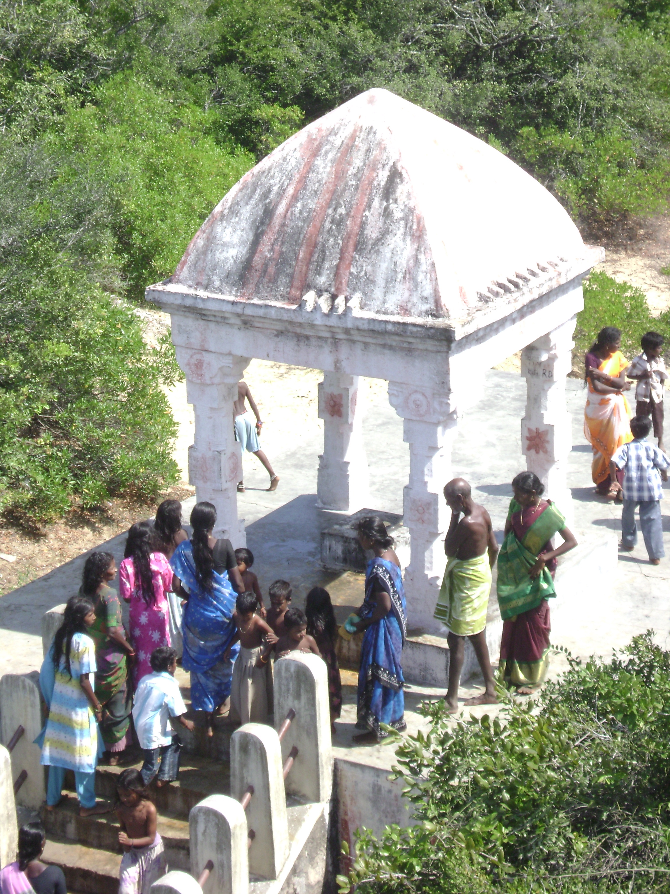 Point Calimere Wildlife and Bird Sanctuary,Ramar Padam (literally: Ramas Footprint) located on the highest point of land in the sanctuary, is a small shrine containing the stone footprints of Lord Rama. Large numbers of Rama devotees gather here during the 2nd week of April to celebrate Ram Navami Festival.